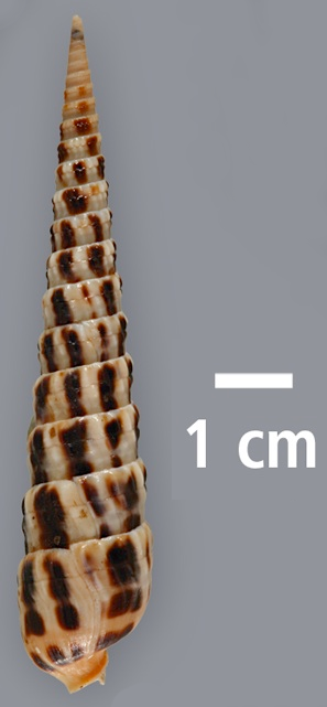 Shell of Terebra taurina from the western Atlantic.